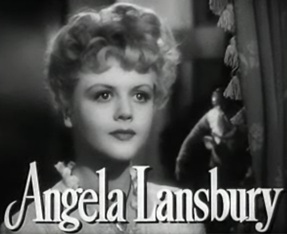 Cropped screenshot of Angela Lansbury from the trailer for the film The Picture of Dorian Gray.